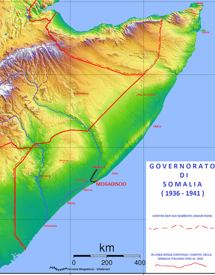 Map of the Italian "Governatorato di Somalia", that lasted from 1936 to 1941. Work done on original map (File:Somalia Topography.png) from wikipedia commons about Somalia topography. Added data with my software. The borders of "Governatorato di Somalia" are those (in red line) of actual Somalia + those within the red dots made by me on the Ogaden of actual Ethiopia.